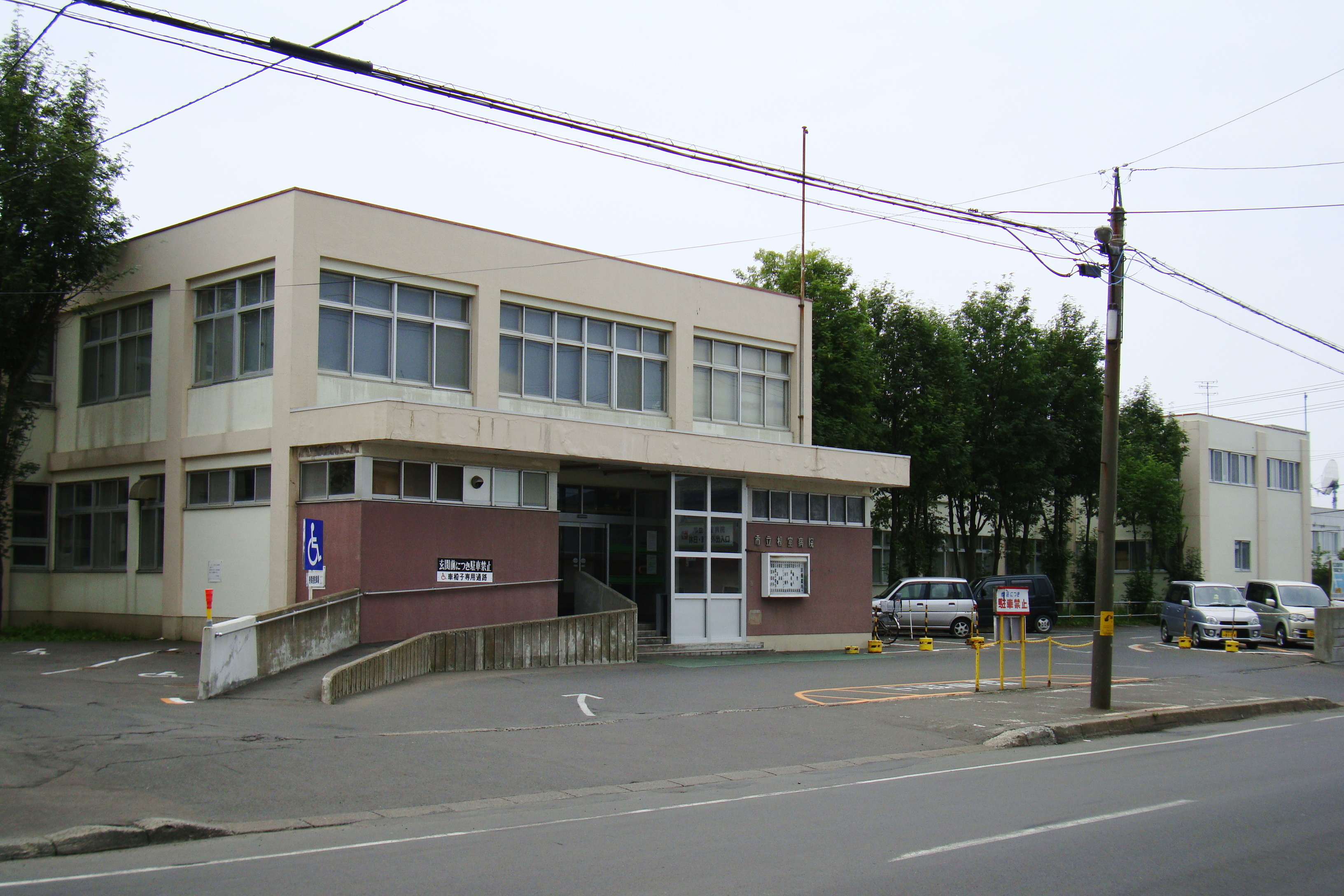 Nemuro City Hospital